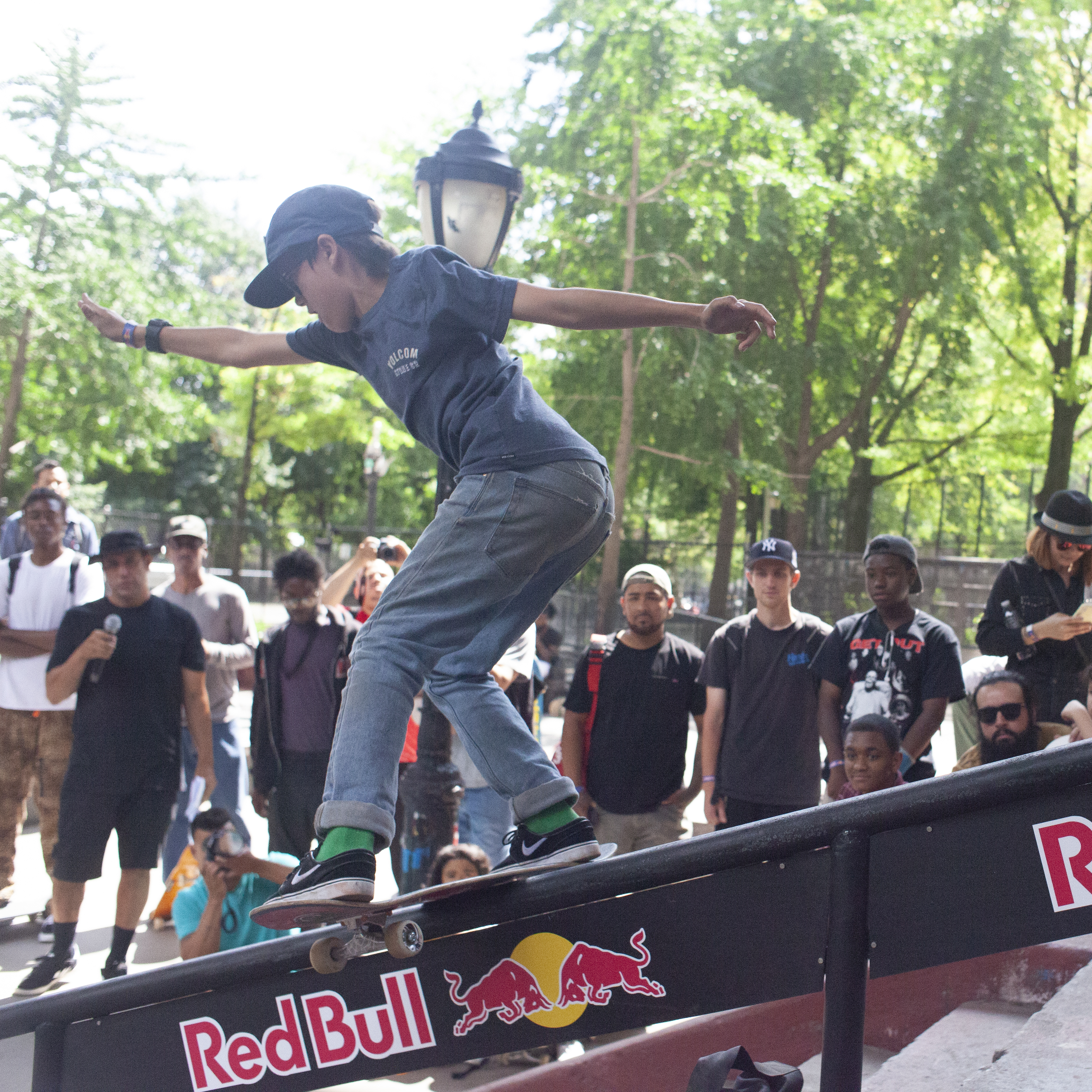 Jiro Platt with a clean lipslide at LES Skatepark during a Red Bull skate event. Steve Rodriguez looks on.